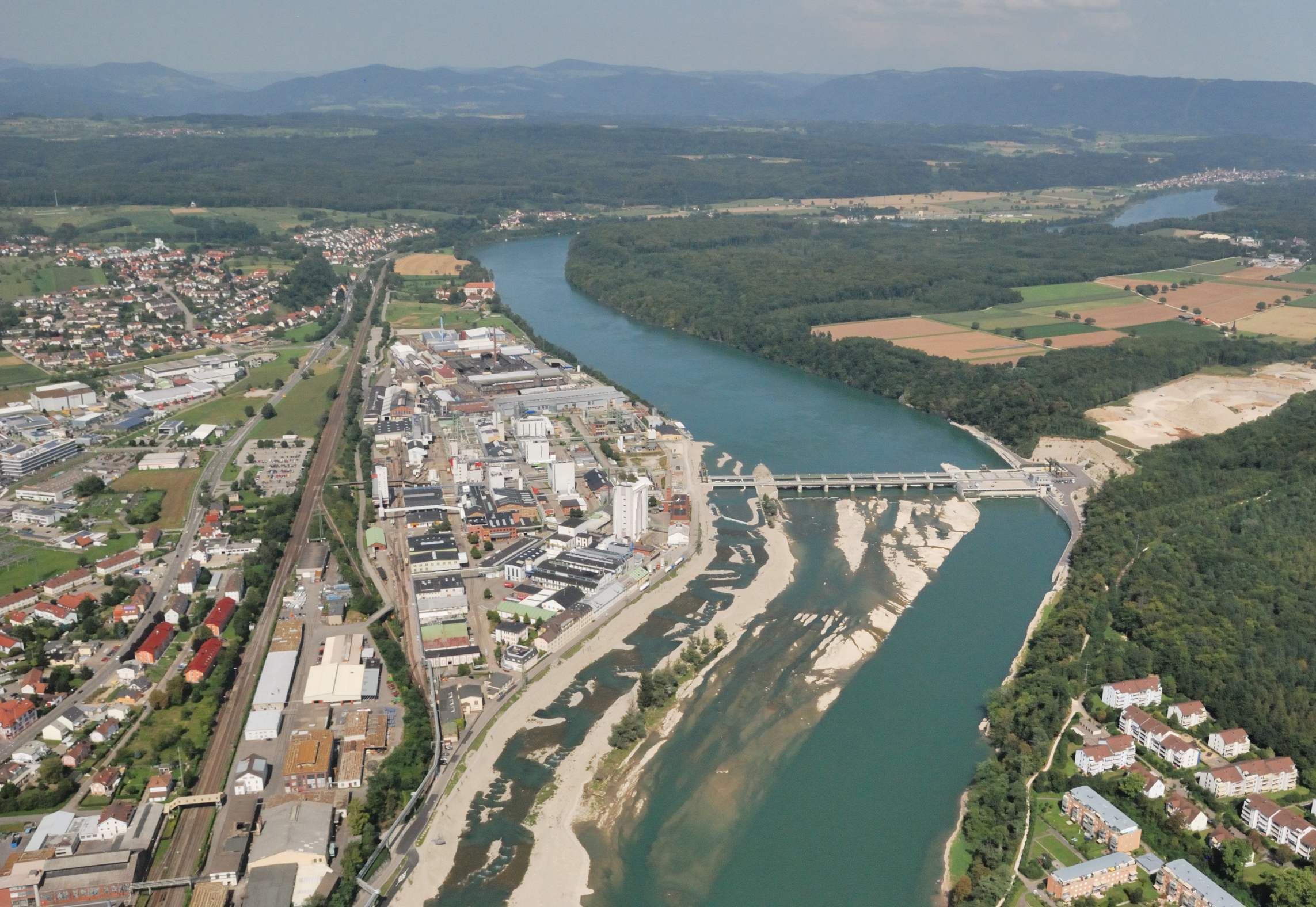 aerial view of the new hydroelectric power plant in Rheinfelden Rheinfelden